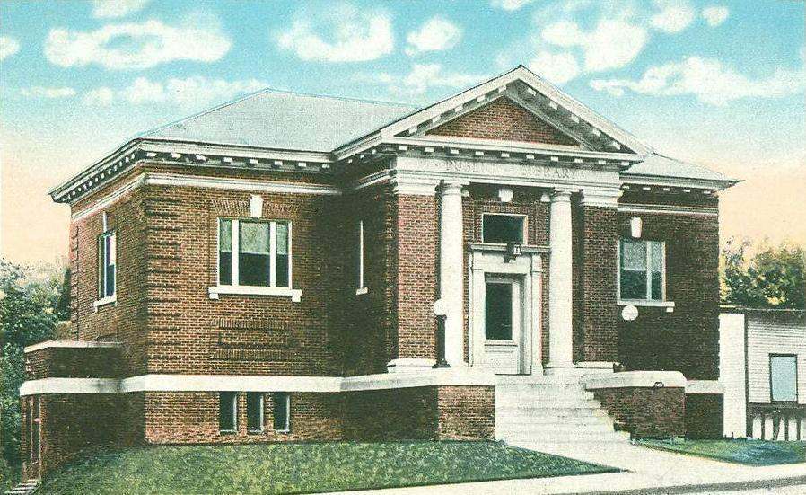 Oakland Public Library, Oakland, Maine. Built in 1913-1915 with a grant from Andrew Carnegie, the building was designed by architect Harry S. Coombs. In 2000, it was added to the National Register of Historic Places.